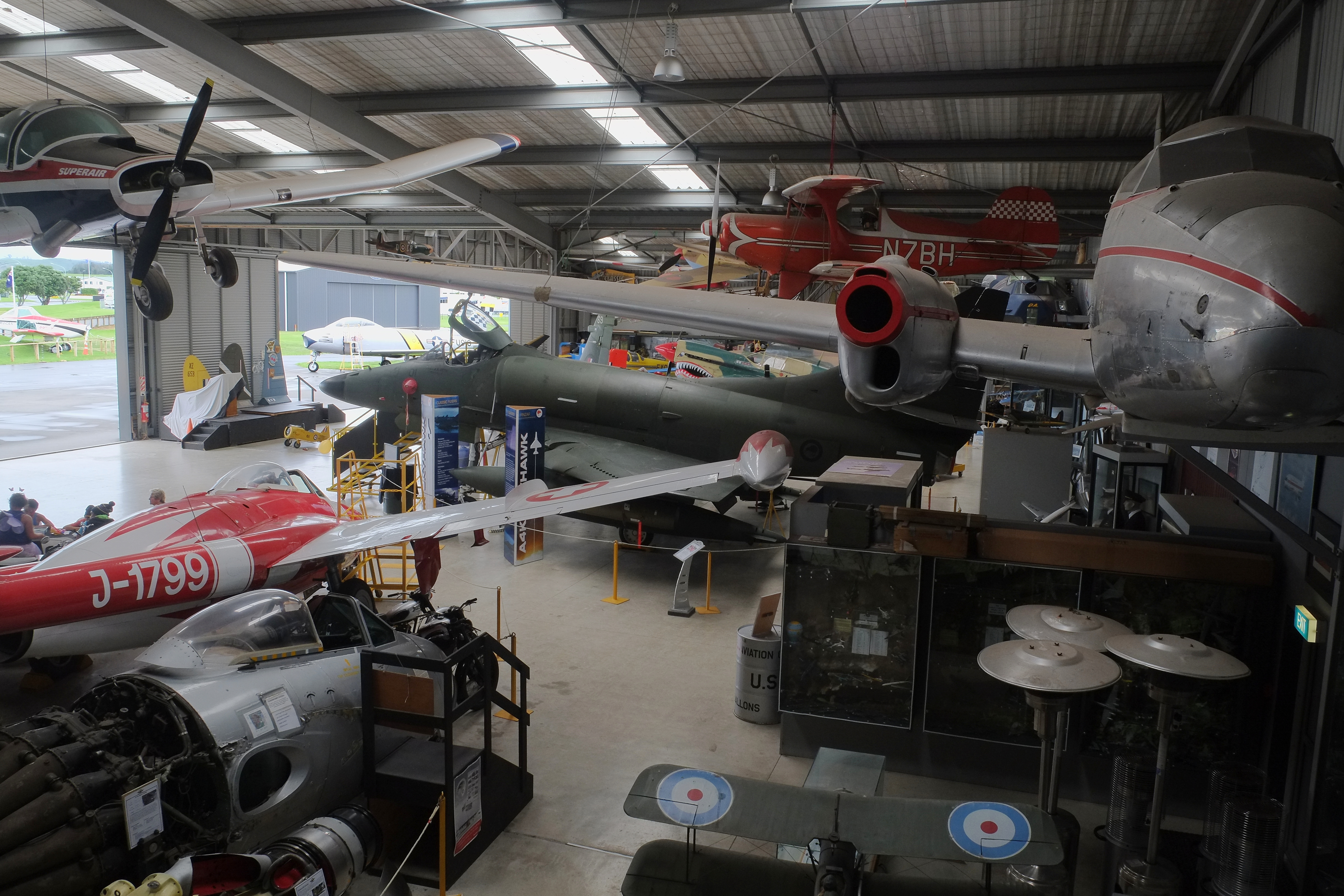 Inside Classic Flyers Museum